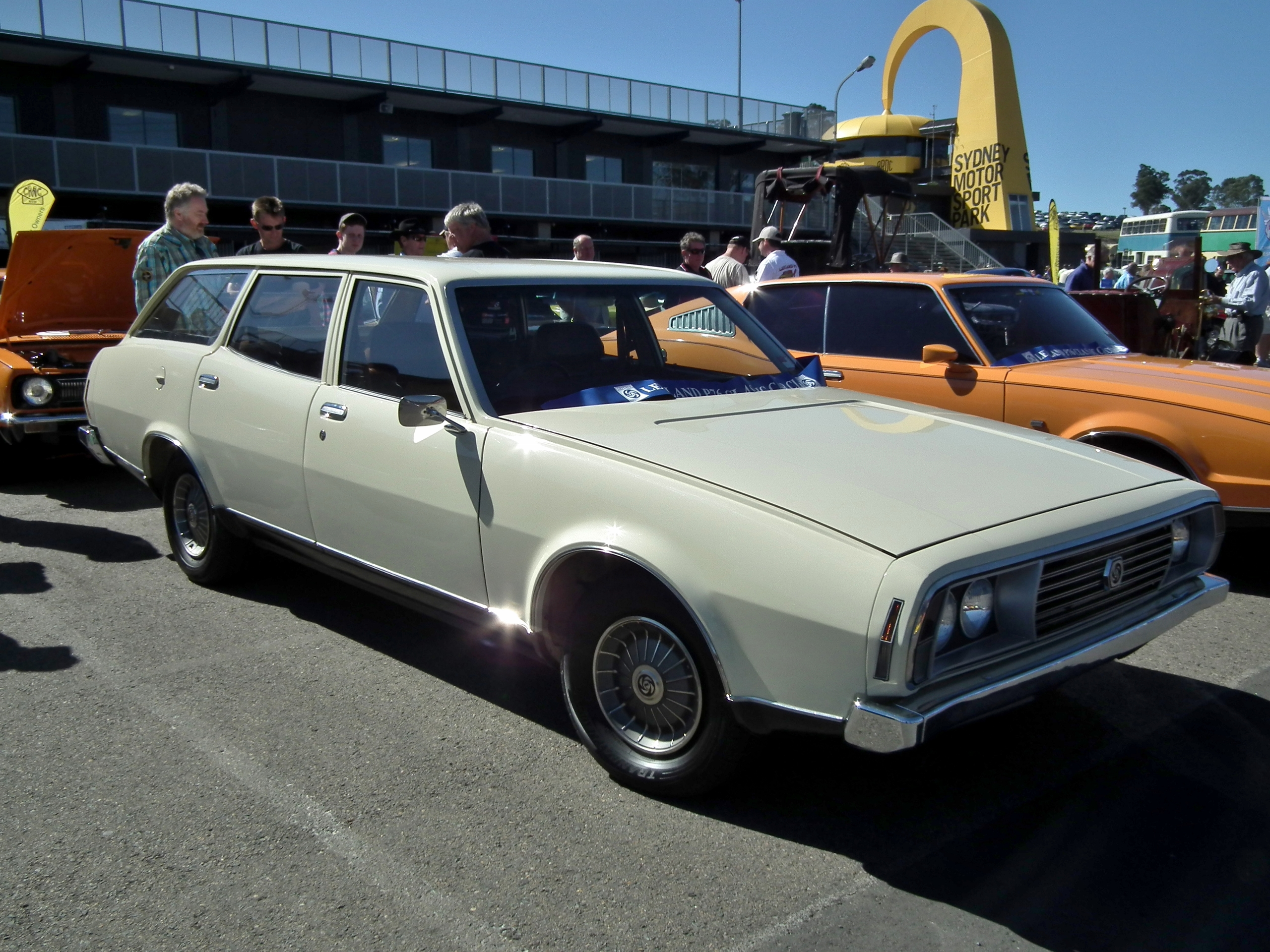 1974 Leyland P76 Super station wagon prototype. This is the only prototype P76 station wagon built by Leyland Australia. Production of the P76 ceased before station wagon production could commence. Taken at the 2013 Shannon's Eastern Creek Classic display day, held at Sydney Motorsport Park.